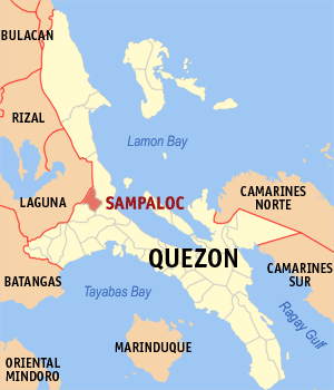 Map of Quezon showing the location of Sampaloc